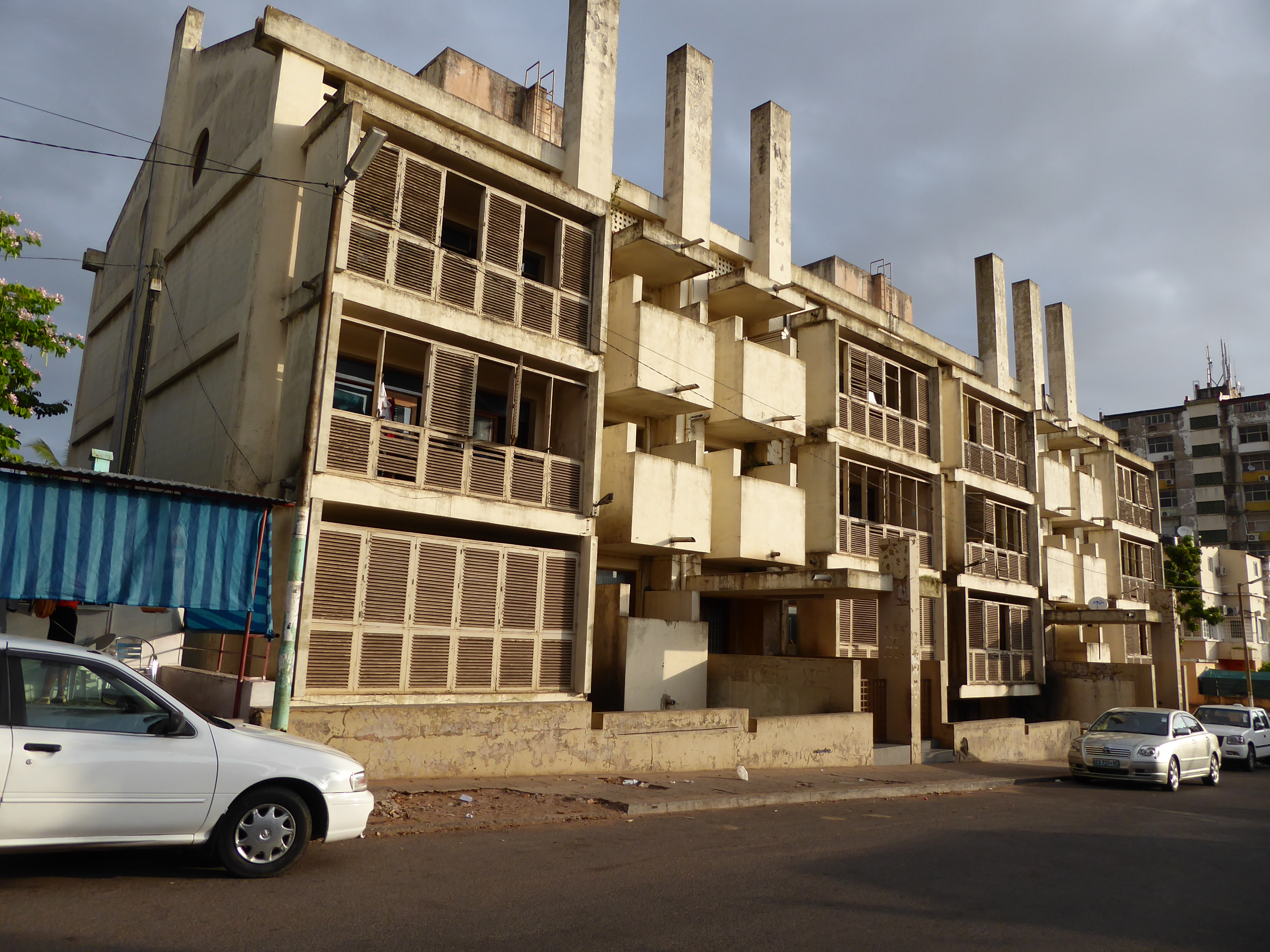 Students' house Khovo Lar, Rua Henri Junod, Maputo, Mozambique